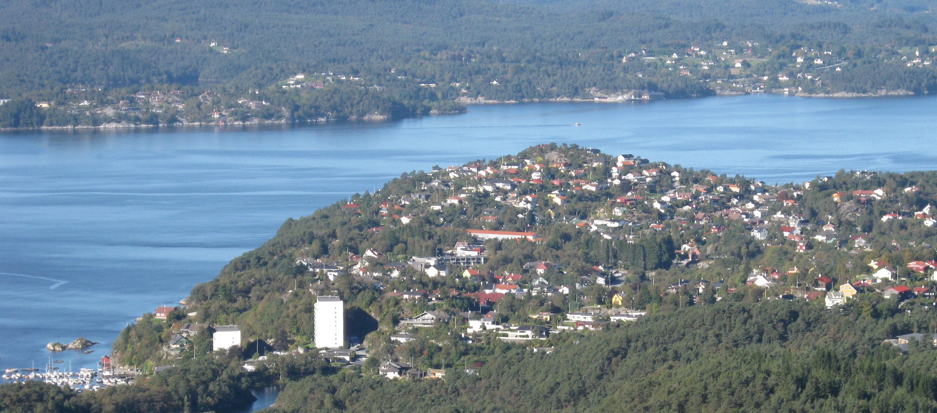 Tertnes, Bergen, Norway. In the background is the fjord Byfjorden, and at the top of the picture, the island Askøy.